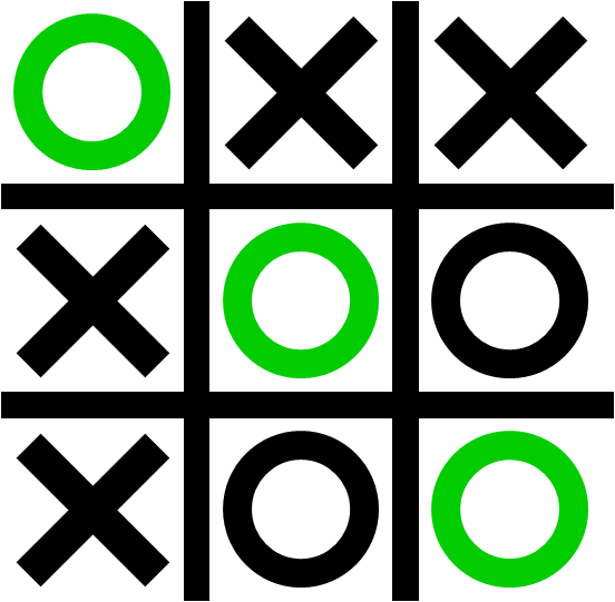 Tic Tac Toe representation.